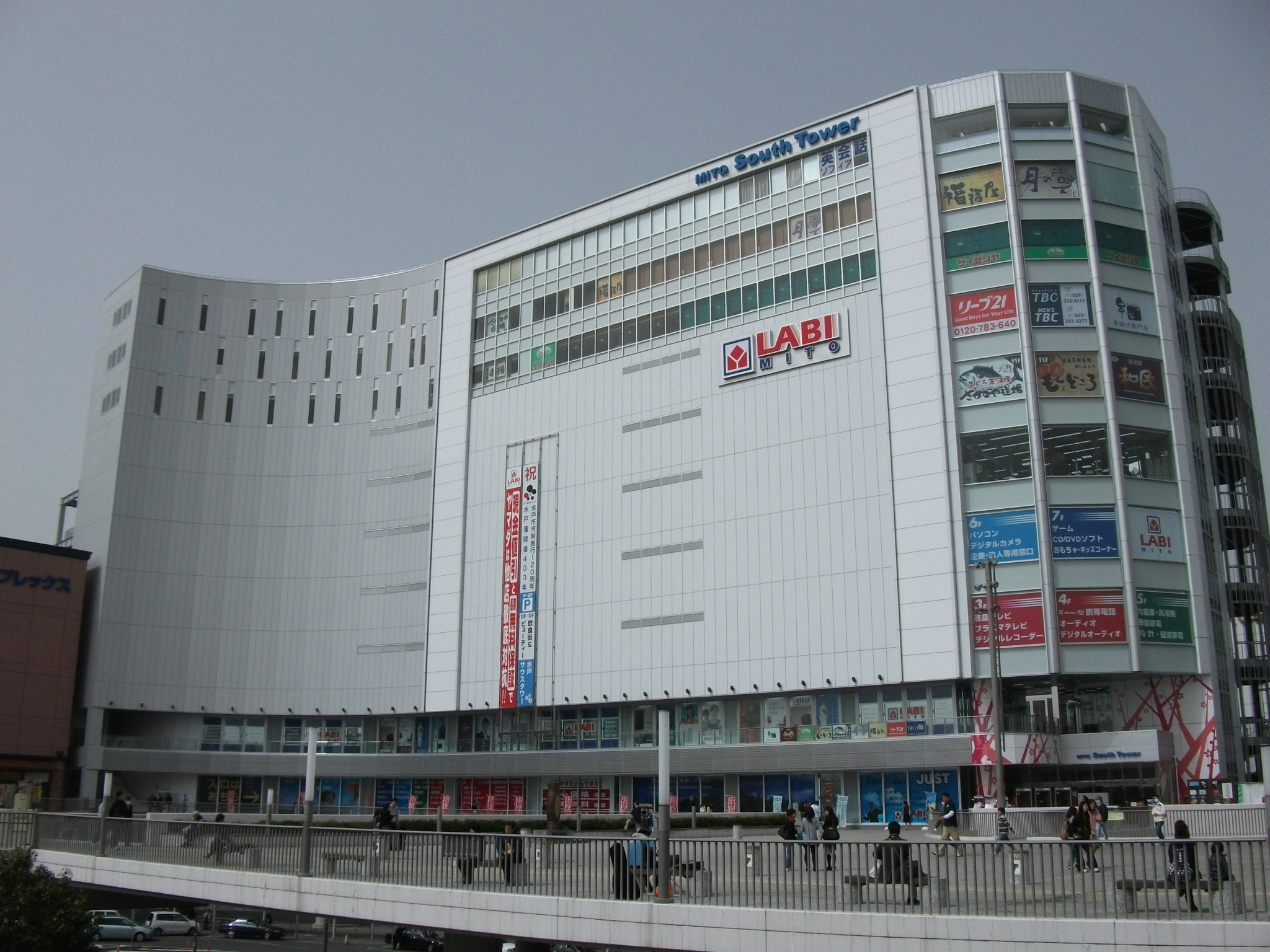 Shopping mall "Mito south tower" (Mito, Japan)